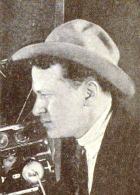 Cinematographer Gilbert Warrenton on page 57 of the December 1921 Photoplay.